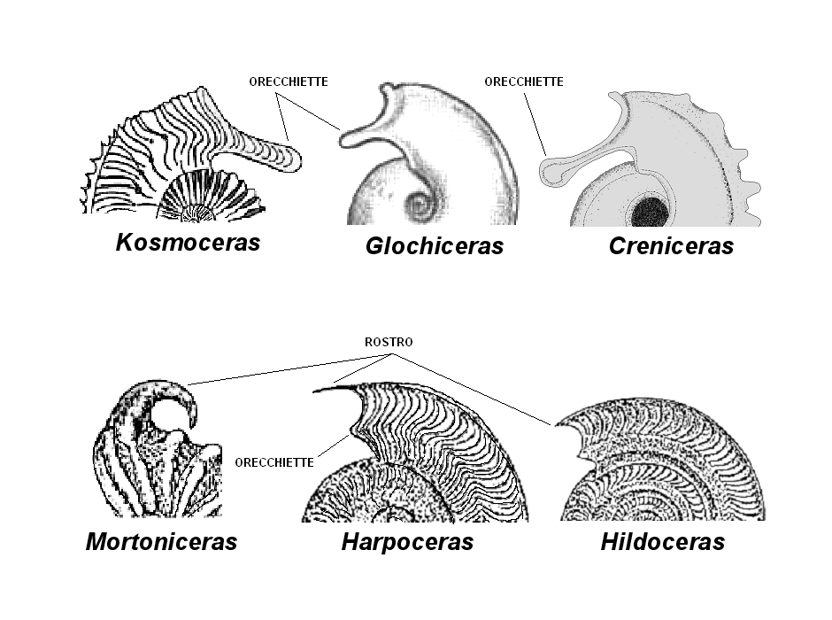 some examples of ammonite peristomes with lappets and rostra. text in italian